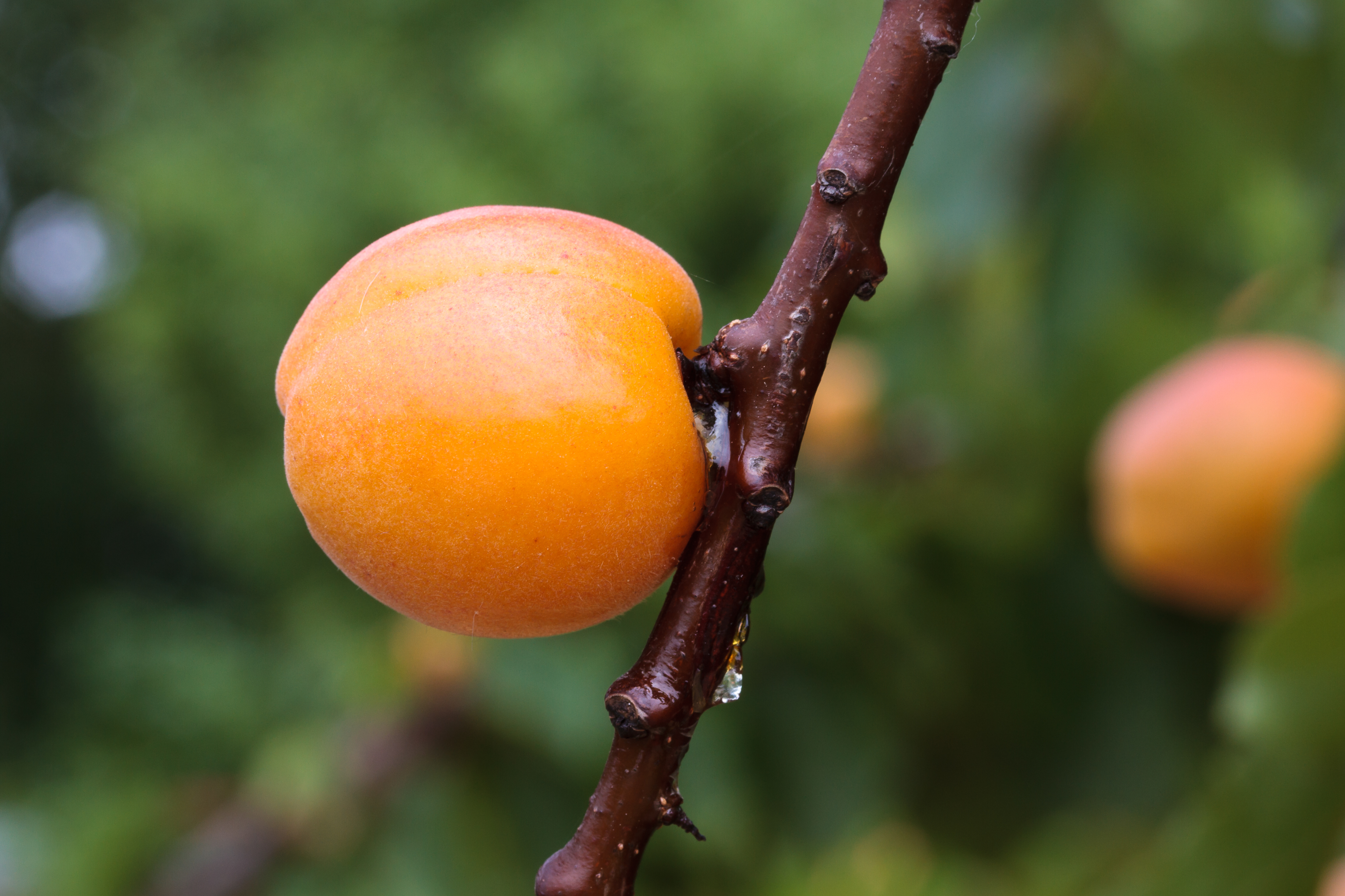 Apricot « from Nancy » (Prunus armeniaca L.) in the gardens of the Muséum de Toulouse (in Borderouge).